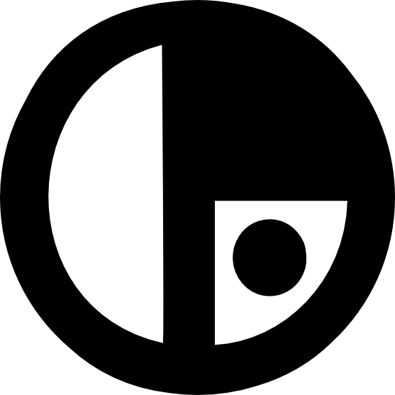 Logo of the french rock band Tupelo Soul